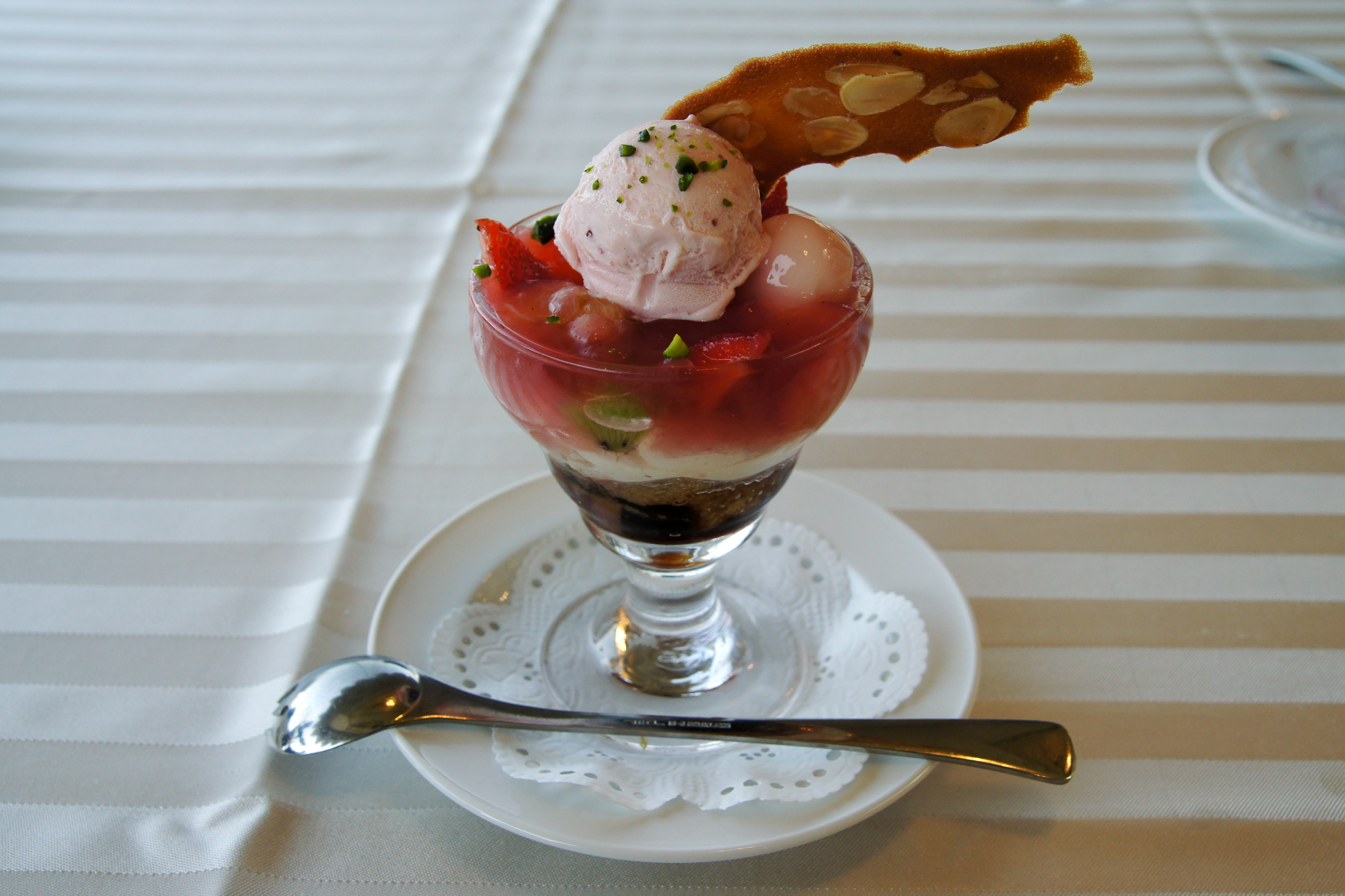 Resort_Hotel_Olivean_Shodoshima in Shodo Island, Tonosho, Kagawa Prefecture, Japan